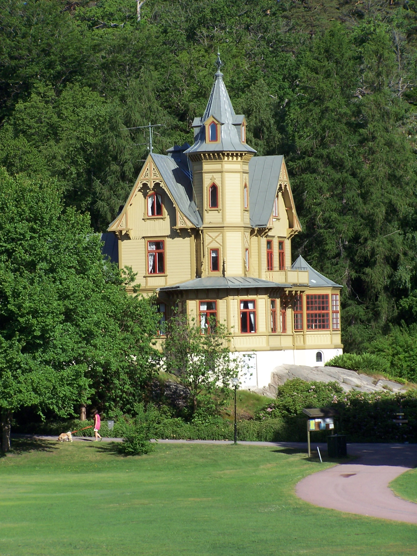 Direktörsvillan (The manager's villa)